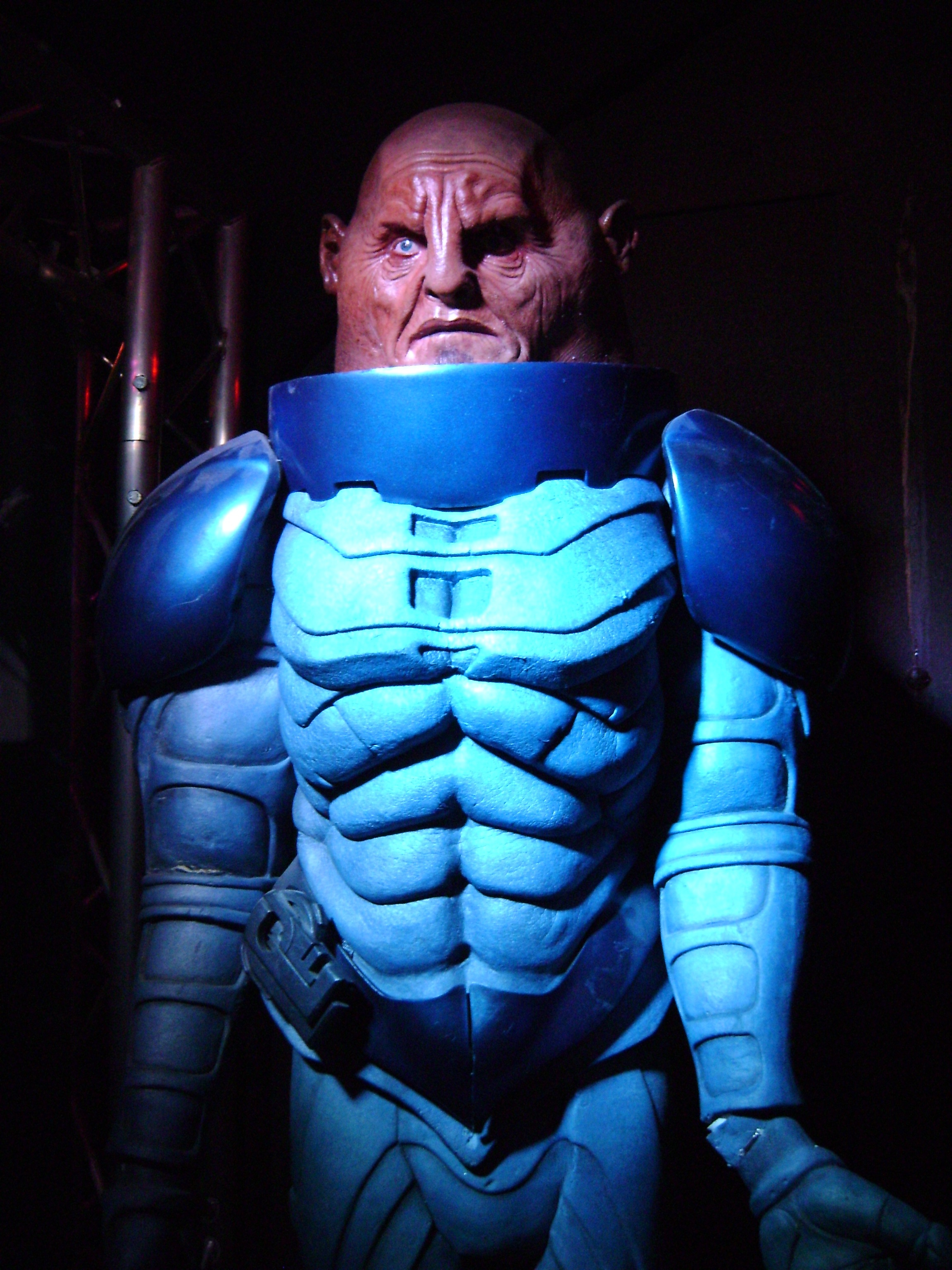 Sontaran Doctor Who Experience